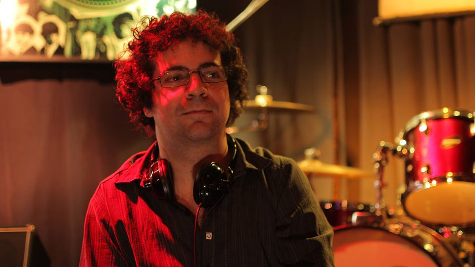 Charlie Martinez (b. 1984) is an Argentinean singer-songwriter, recording engineer, programmer and animated filmmaker.